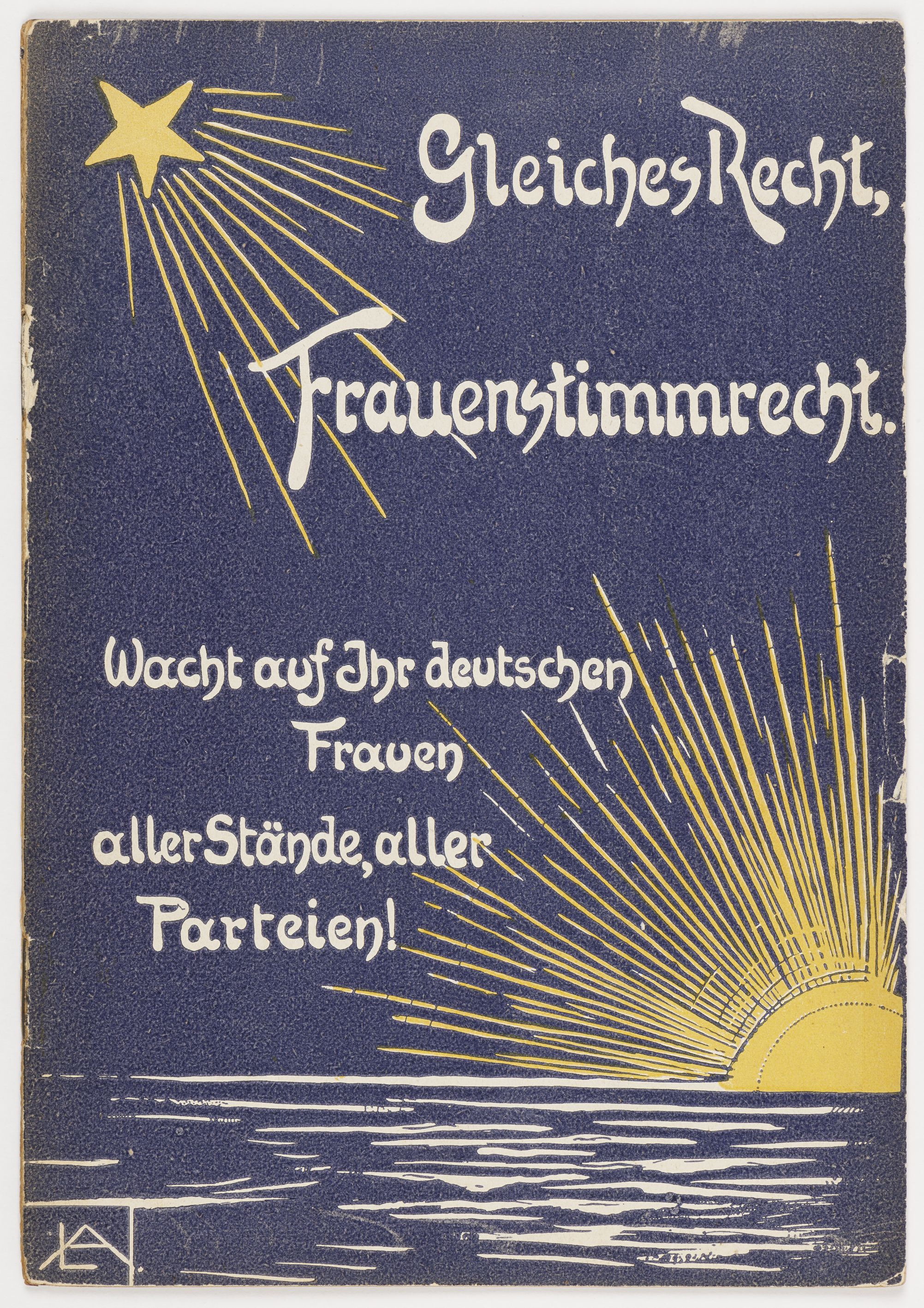 Title of brochure Gleiches Recht, Frauenstimmrecht. Wacht auf Ihr deutschen Frauen aller Stände aller Parteien! (Equal Right, Women suffrage. Wake Up You German Women of all social ranks of all parties!), Author Lida Gustava Heymann, Entity: Deutscher Verband für Frauenstimmrecht (German association for Women's suffrage). Publisher: Kastner & Callwey, München. Published 1907. Foto of the brochure which is in Archiv der deutschen Frauenbewegung (Archive of German Women's Movement), Kassel, Signature 19775. Photographer: Horst Ziegenfusz on behalf of Historisches Museum Frankfurt (Historical Museum Frankfurt). Published in Dorothee Linnemann (Hrsg.): Damenwahl! 100 Jahre Frauenwahlrecht. Begleitbuch zur Ausstellung. Societäts-Verlag, Frankfurt am Main 2018, ISBN 978-3-95542-306-3, S. 7, 75.